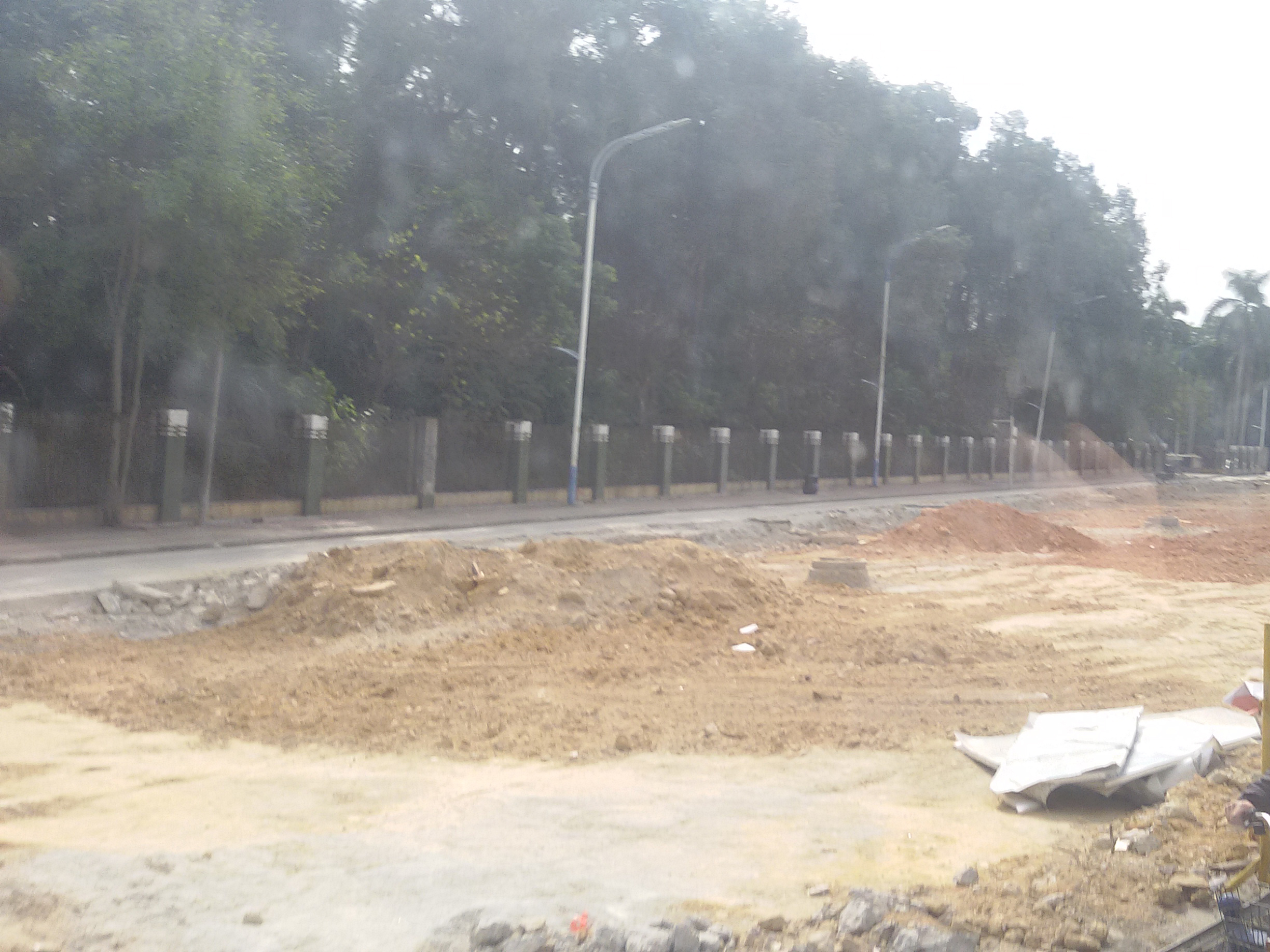 Botanical Garden Station for Guangzhou Metro have enclosed for under construction since Dec. 29th., 2016